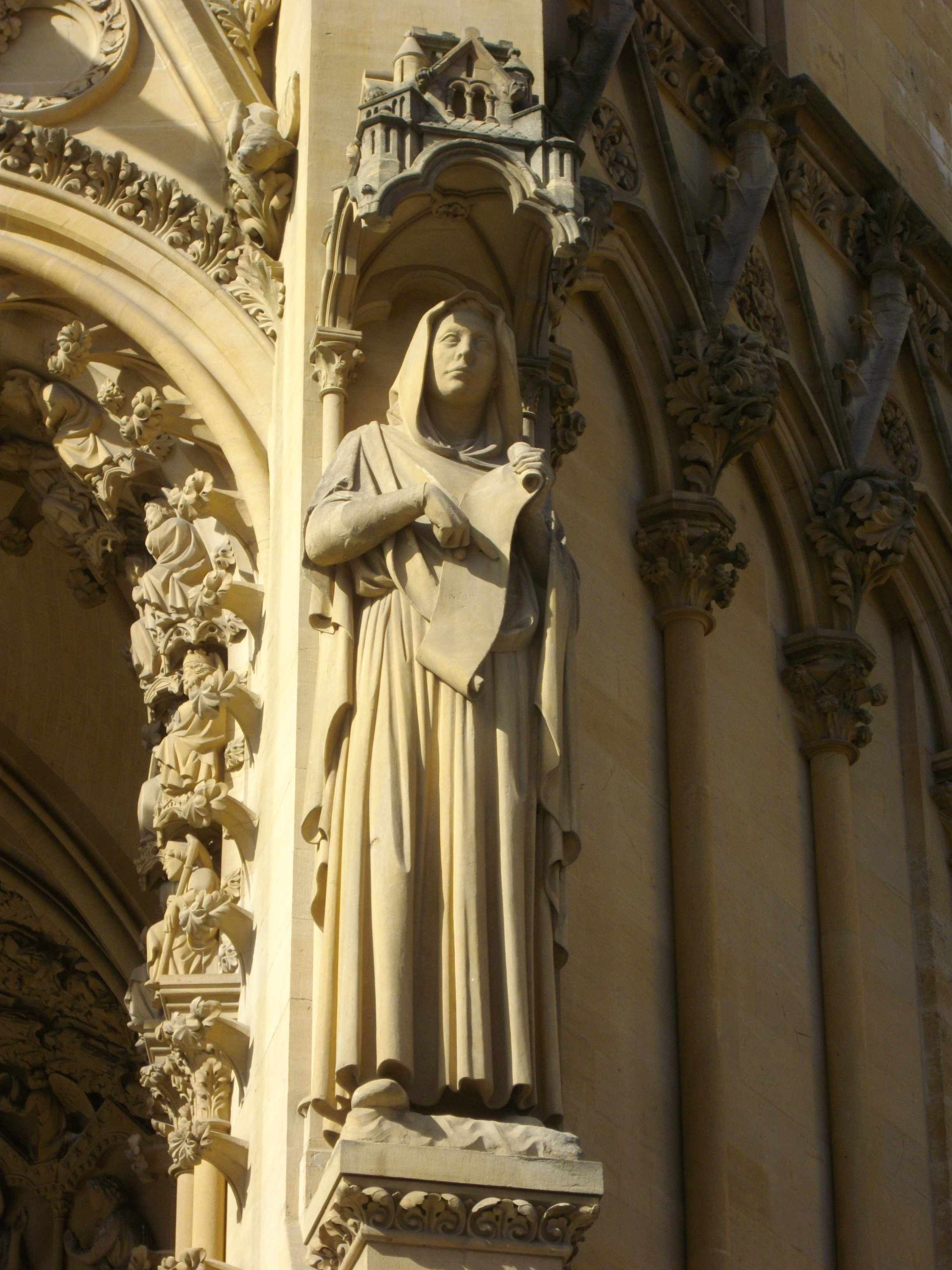 Southern facade of Saint Stephen cathedral of Metz (Moselle, France). Statue representing Wilhelm II .